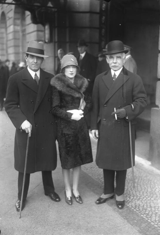 Roger Wolfe Kahn (left) with his wife Hannah Williams (center) and his father Otto Hermann Kahn (right) in Berlin, 1931.